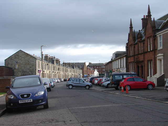 Templehill Approaching Troon cross.